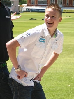 Danny Webb at a pre-event of the 2010 British motorcycle Grand Prix.